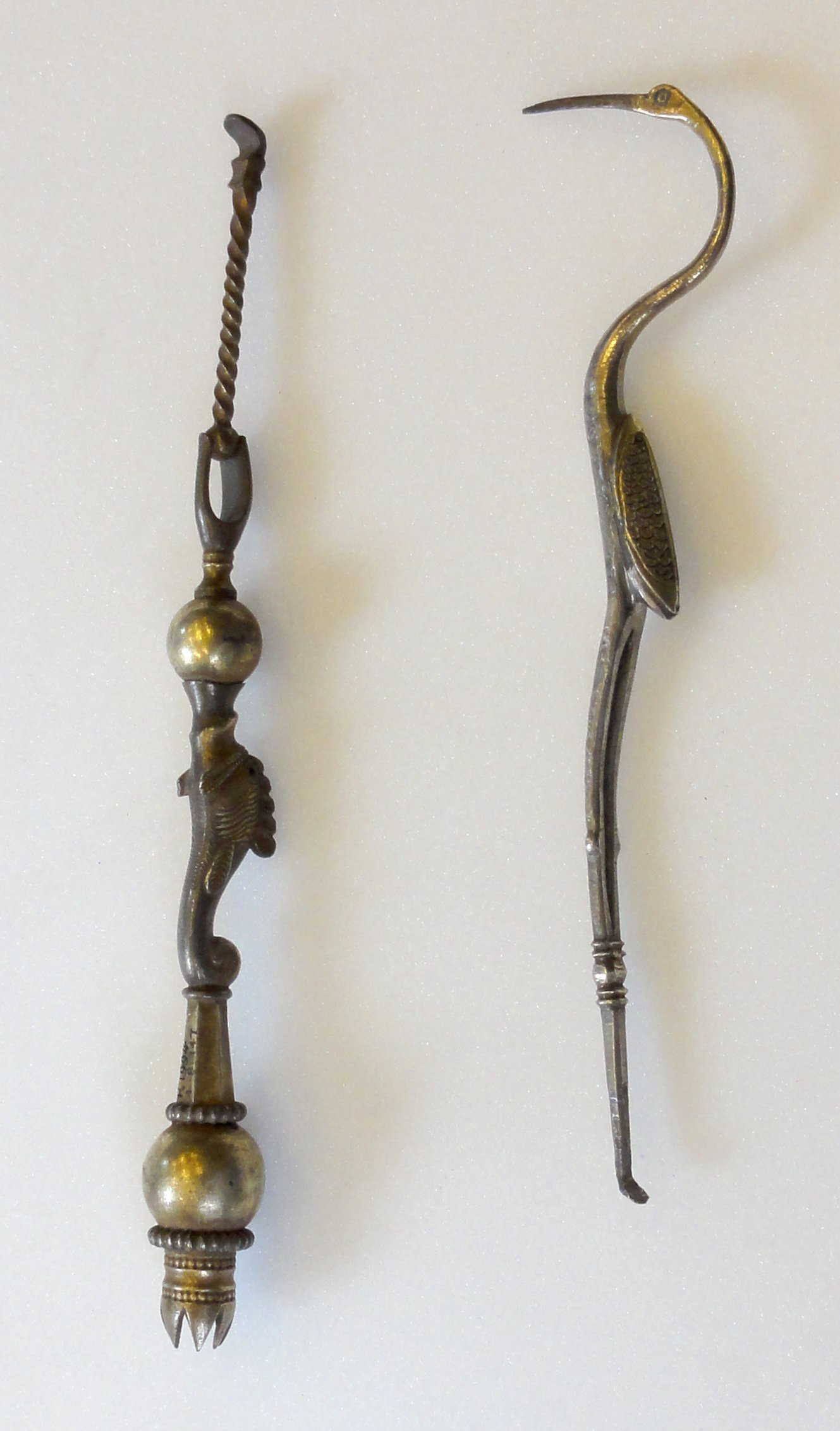 Items from the Hoxne Hoard shown during the British Museum/Wikipedia workshop. These items likely to be used for personal grooming. Examples are not currently on public display.